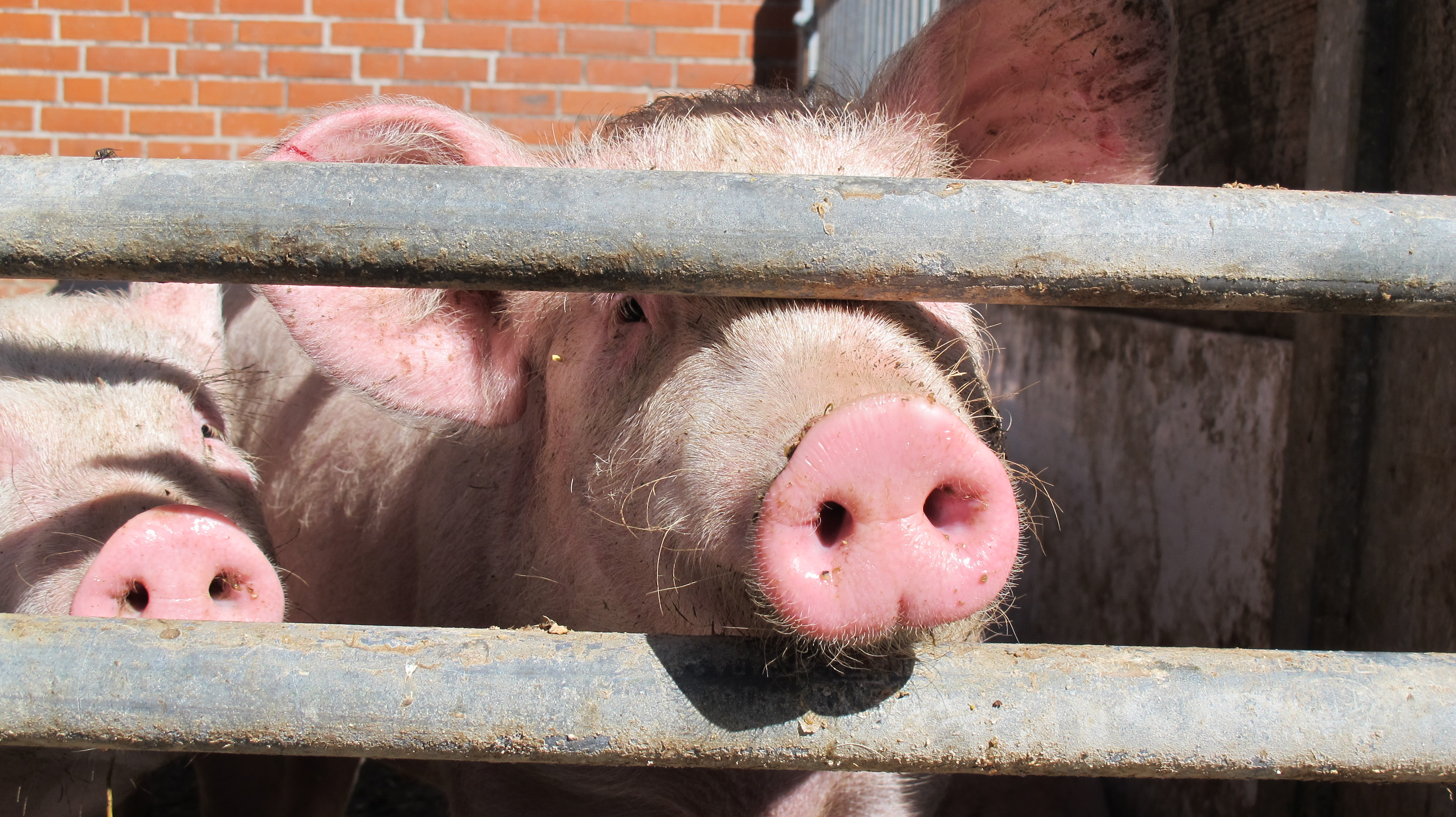 Pigs behind a fence in a bio-dynamic farm in Schleswig-Holstein near Ratzeburg, June 2013.